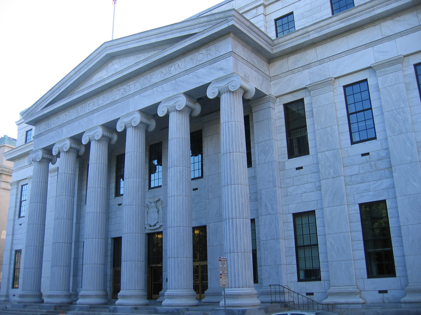 A photograph of the the New York State Court of Appeals in Albany. It is the state's highest judicial body. The image was taken with a Canon PowerShot S50 digital camera.